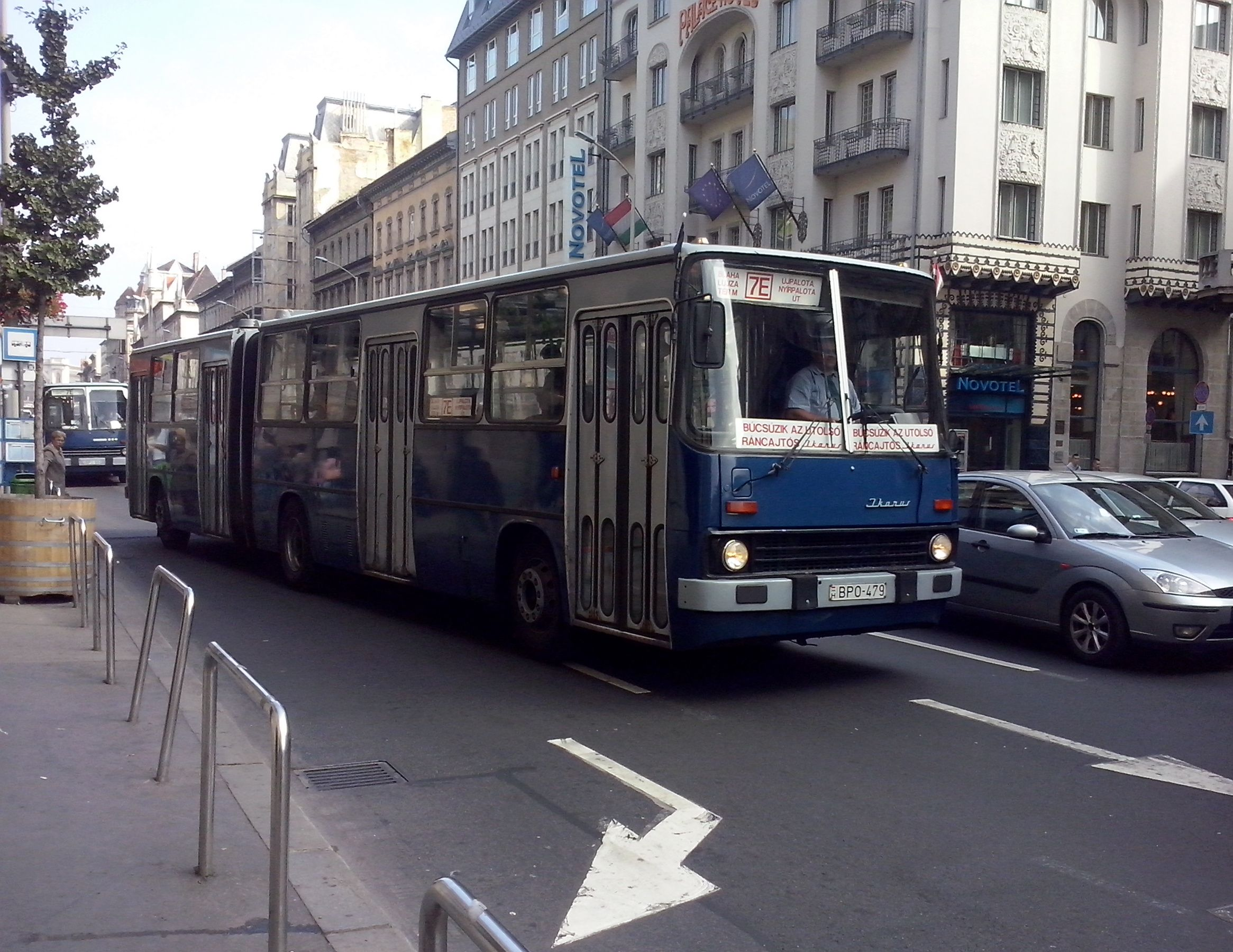 The last working day of BPO-479 (Ikarus 280) on the line number 7E (Budapest).